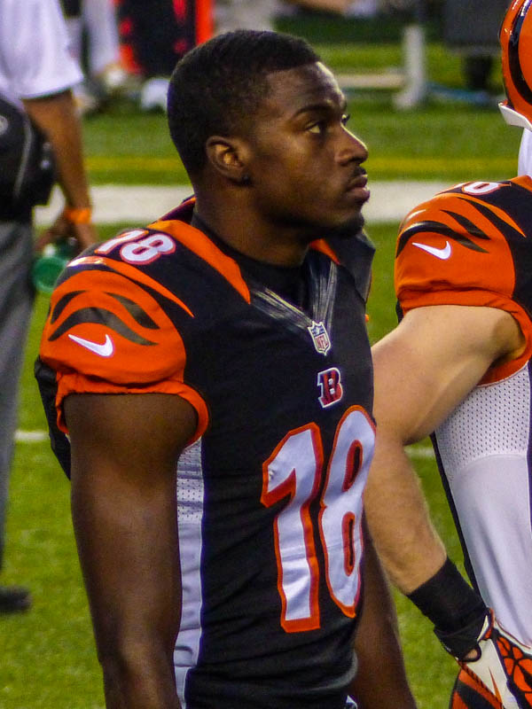 Warming up before Monday Night Football game vs the Pittsburgh Steelers, September 17, 2013